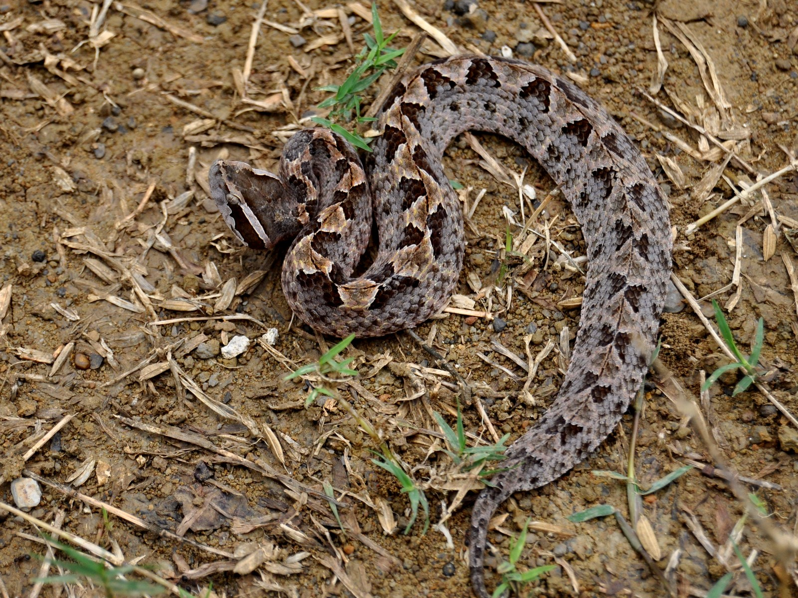 Young Malayan Pit Viper (Calloselasma rhodostoma); from Karawang, West Java. Ready-to-strike posture.